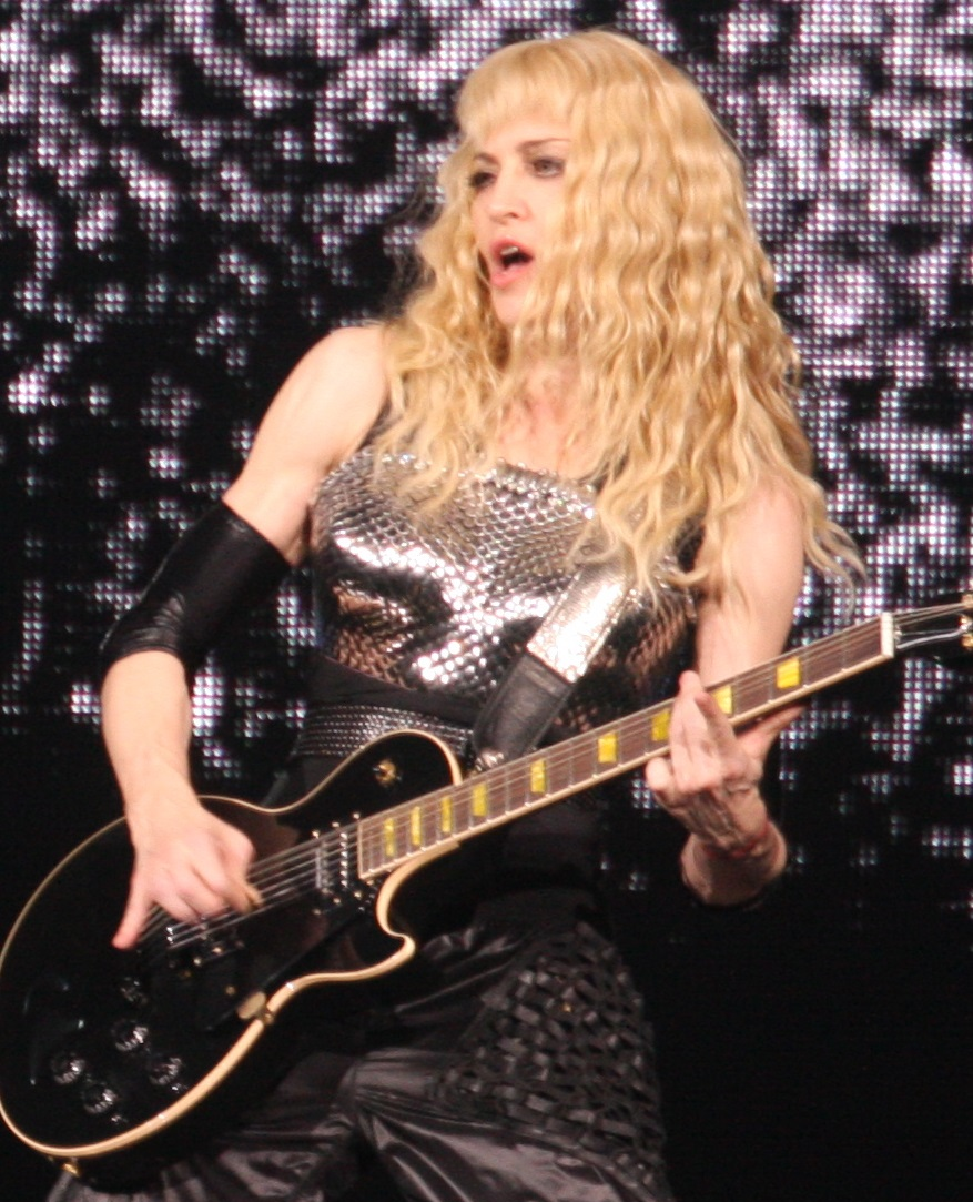 "Hung Up" / "A New Level" at Sticky & Sweet Tour 2008